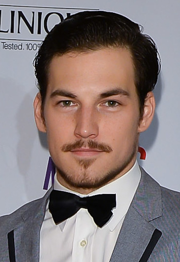 Giacomo Gianniotti This year, the CFC Annual Gala & Auction took guests on a spectacular journey through film with MUSIC & MOVIES.